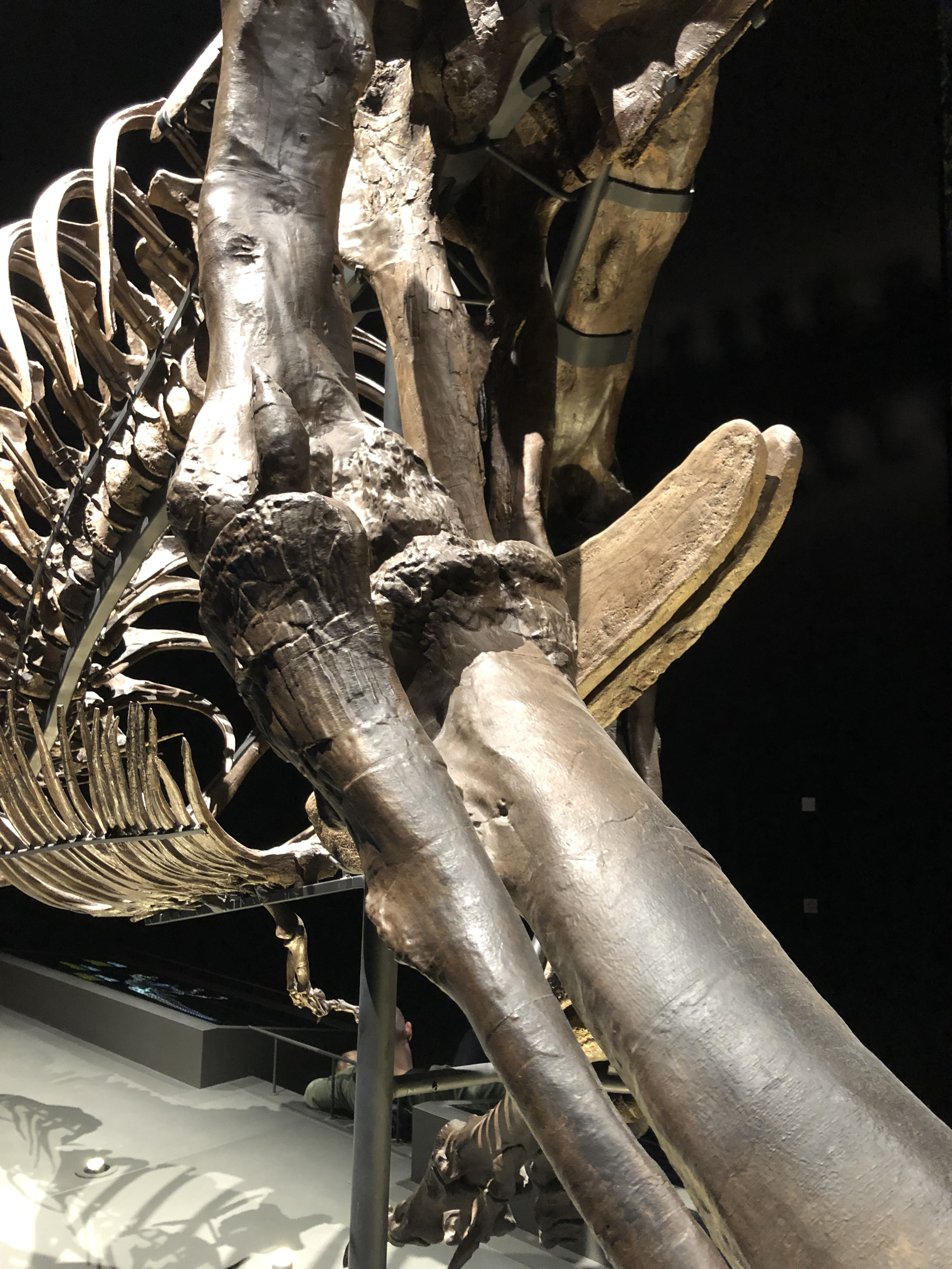 Dinosaur skeleton 'Trix' in Naturalis (Leiden)